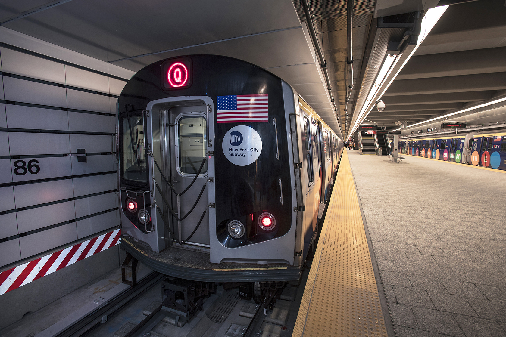 On December 30, 2016, Governor Andrew M. Cuomo and MTA Chairman and CEO Thomas F. Prendergast unveiled the Second Avenue Subway's 86th Street Station. An open house of the station followed. Photo: Metropolitan Transportation Authority / Patrick Cashin